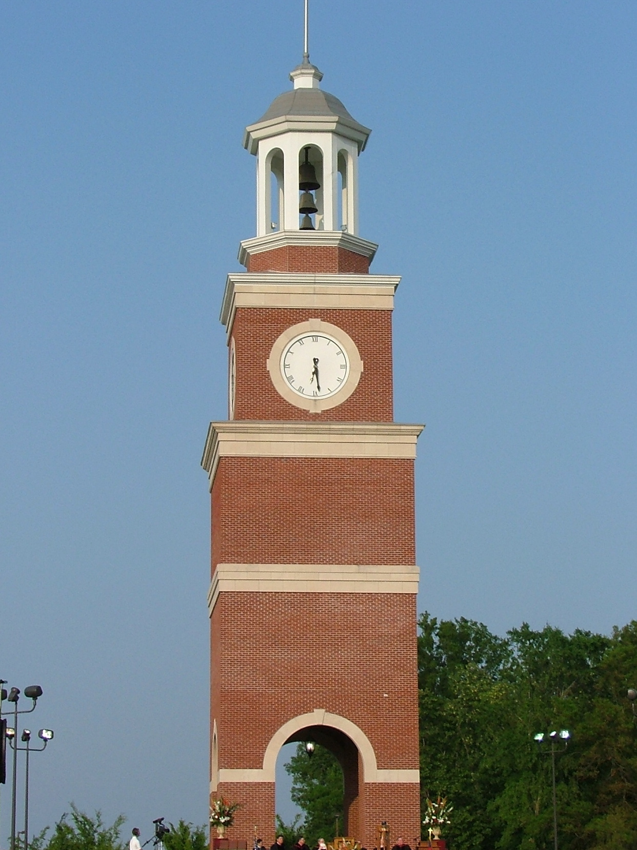 Bell Tower at Union University